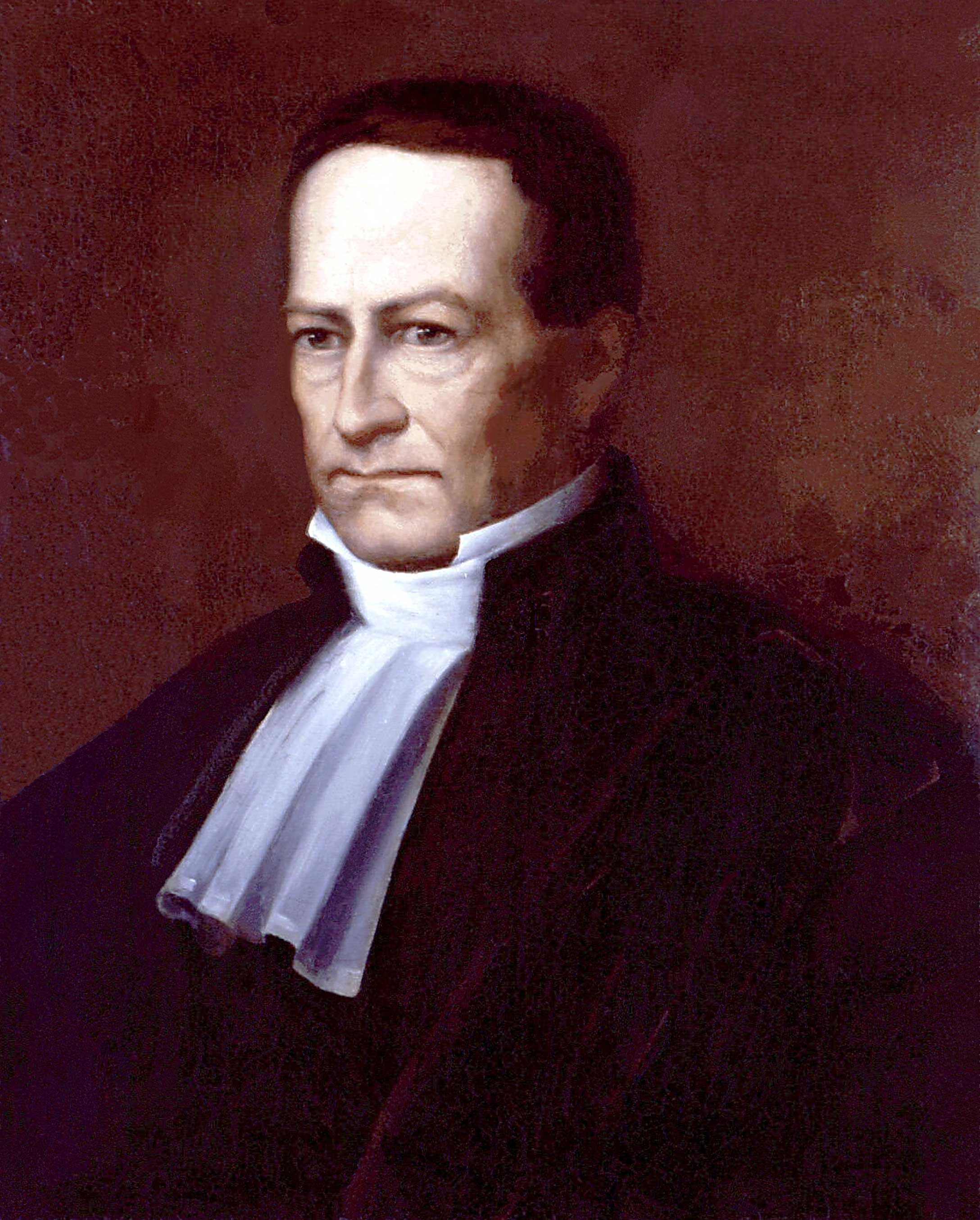 Jan Ackersdijck (1790-1861) Dutch lawyer, statistician and economist